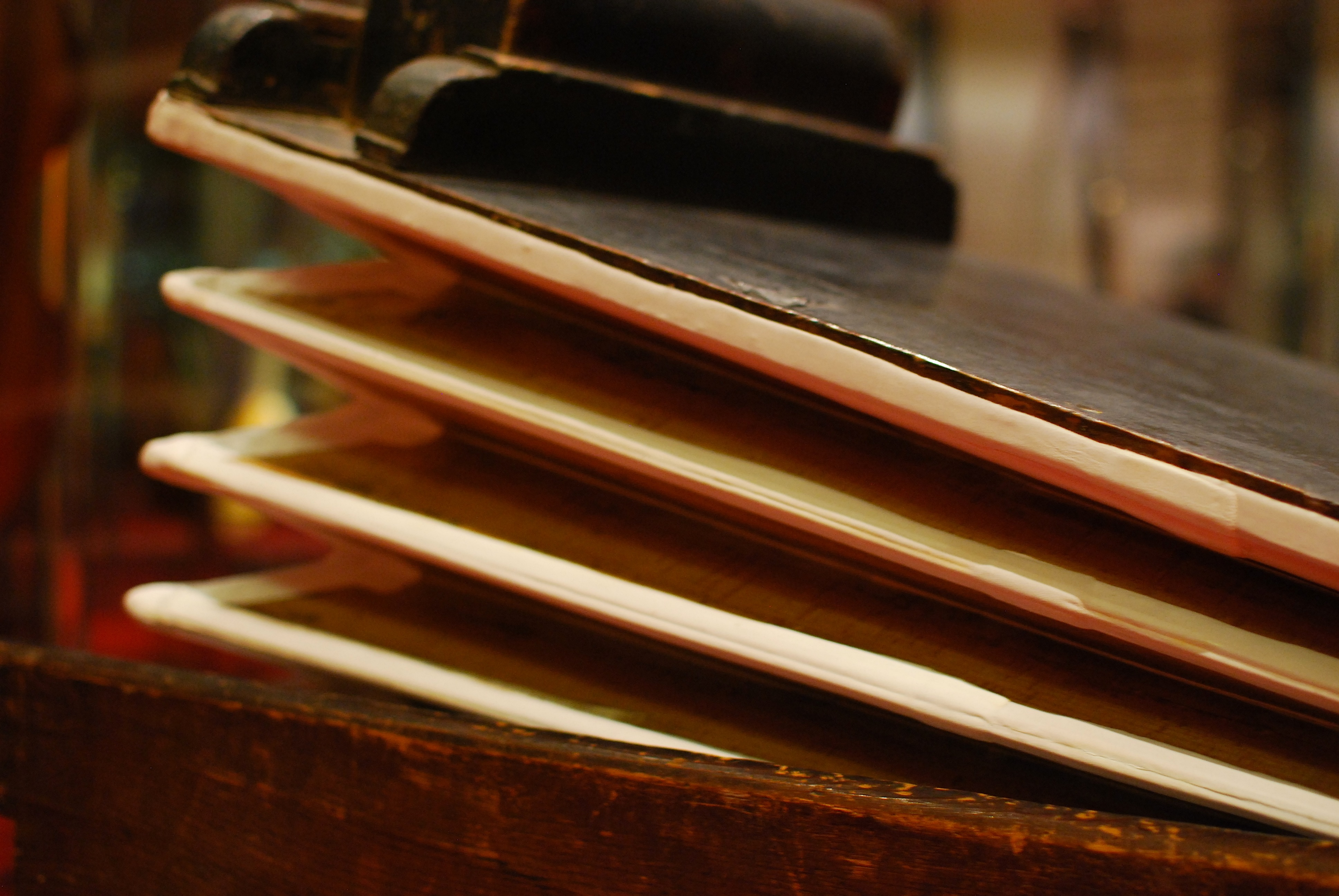 Bellow of a Pipe organ at Museu de la Müsica de Barcelona